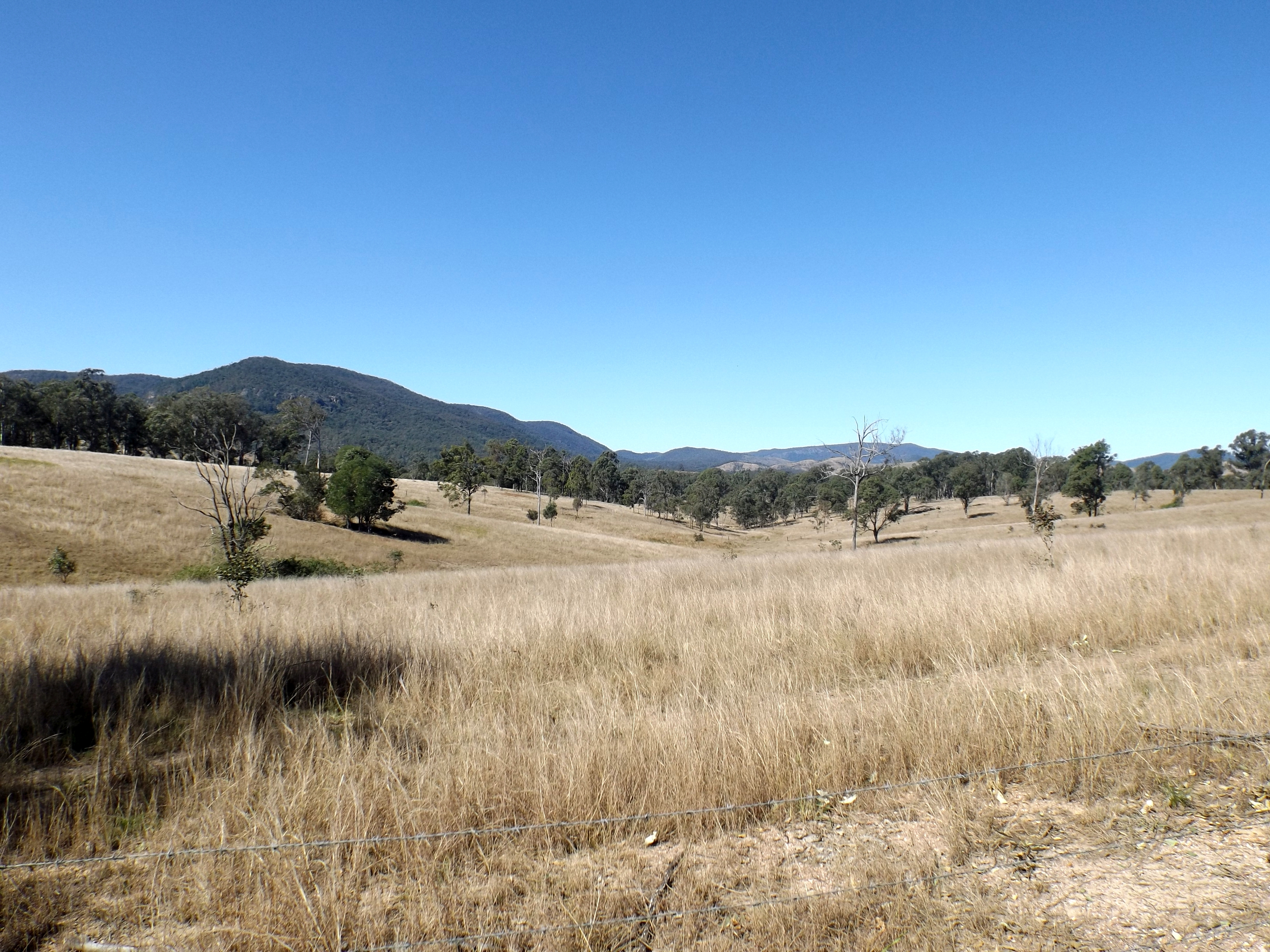 Photo of the paddocks along Runges Road at Glenfern, Somerset Region, Queensland, Australia. View is looking eastwards towards the D'Aguilar Range.